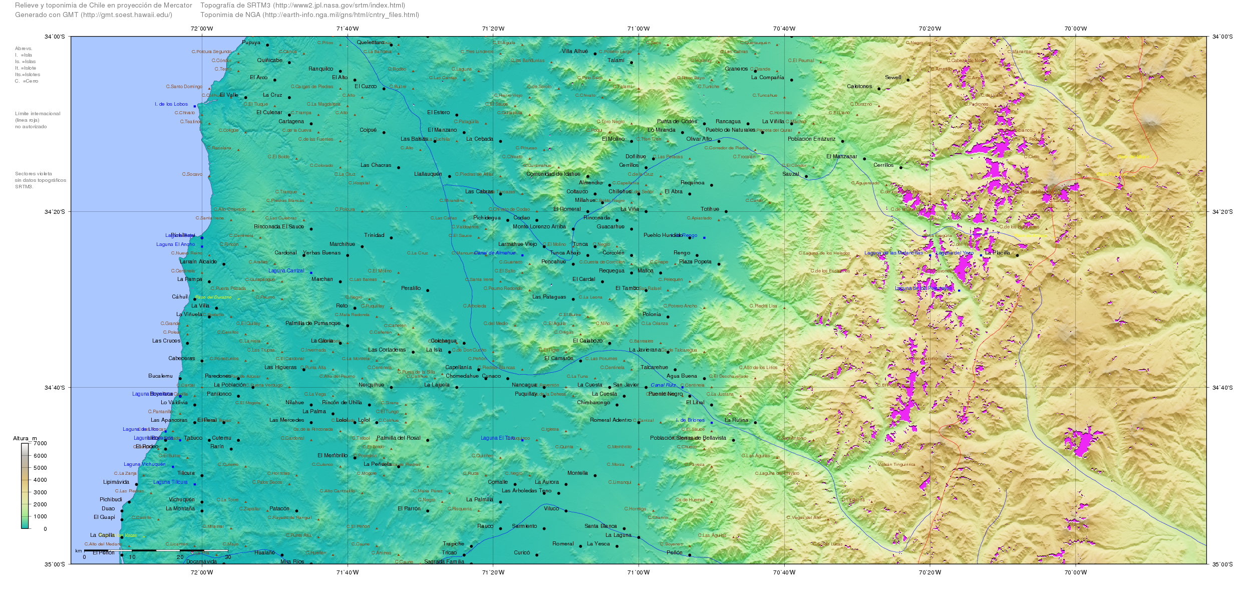 Map of Chile generated with GMT ( topography from SRTM ftp://e0srp01u.ecs.nasa.gov/srtm/version2/SRTM3/ and toponymy from